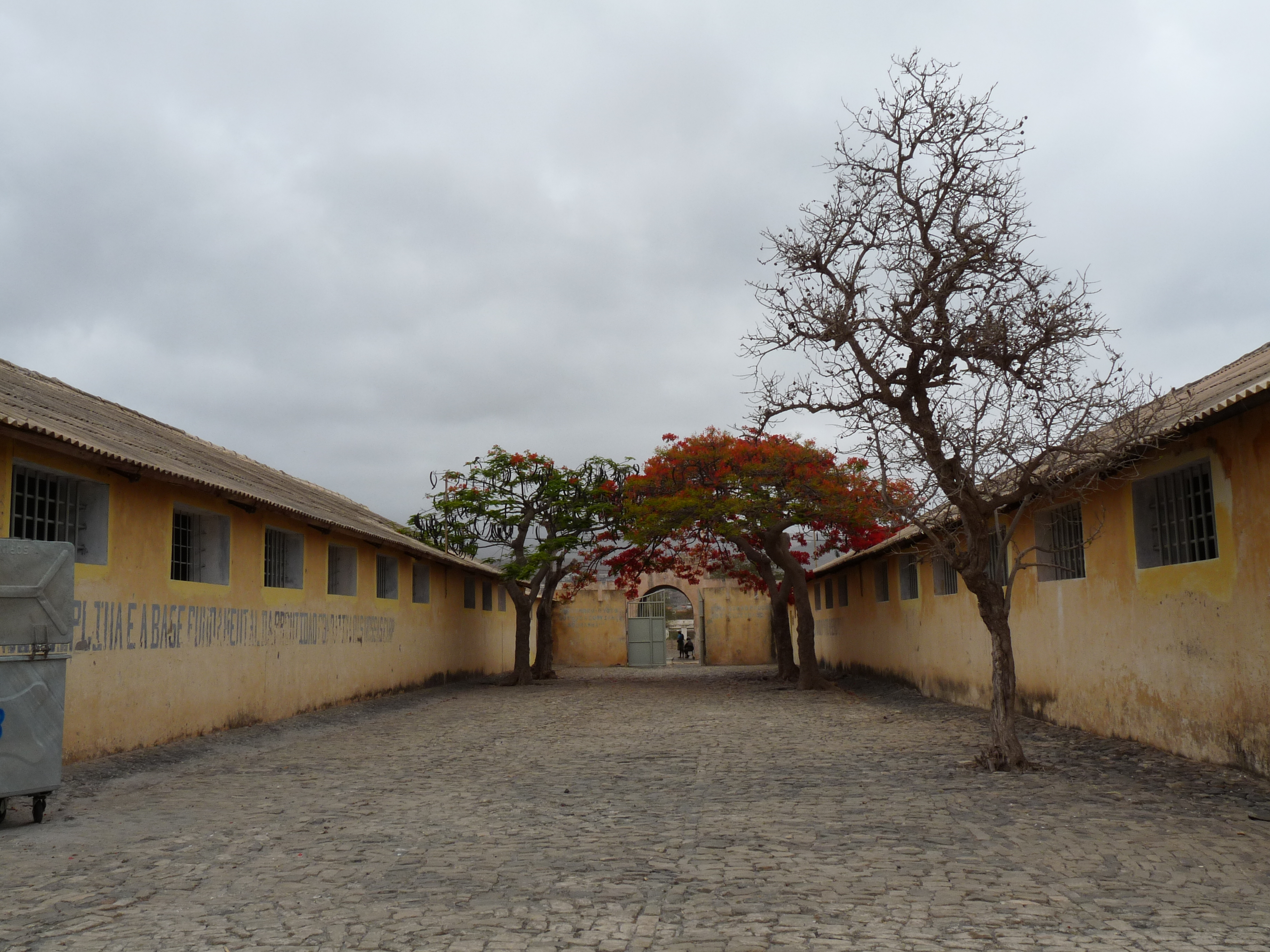 Old Concentration Camp in Tarrafal, Santiago Island - Cape Verde